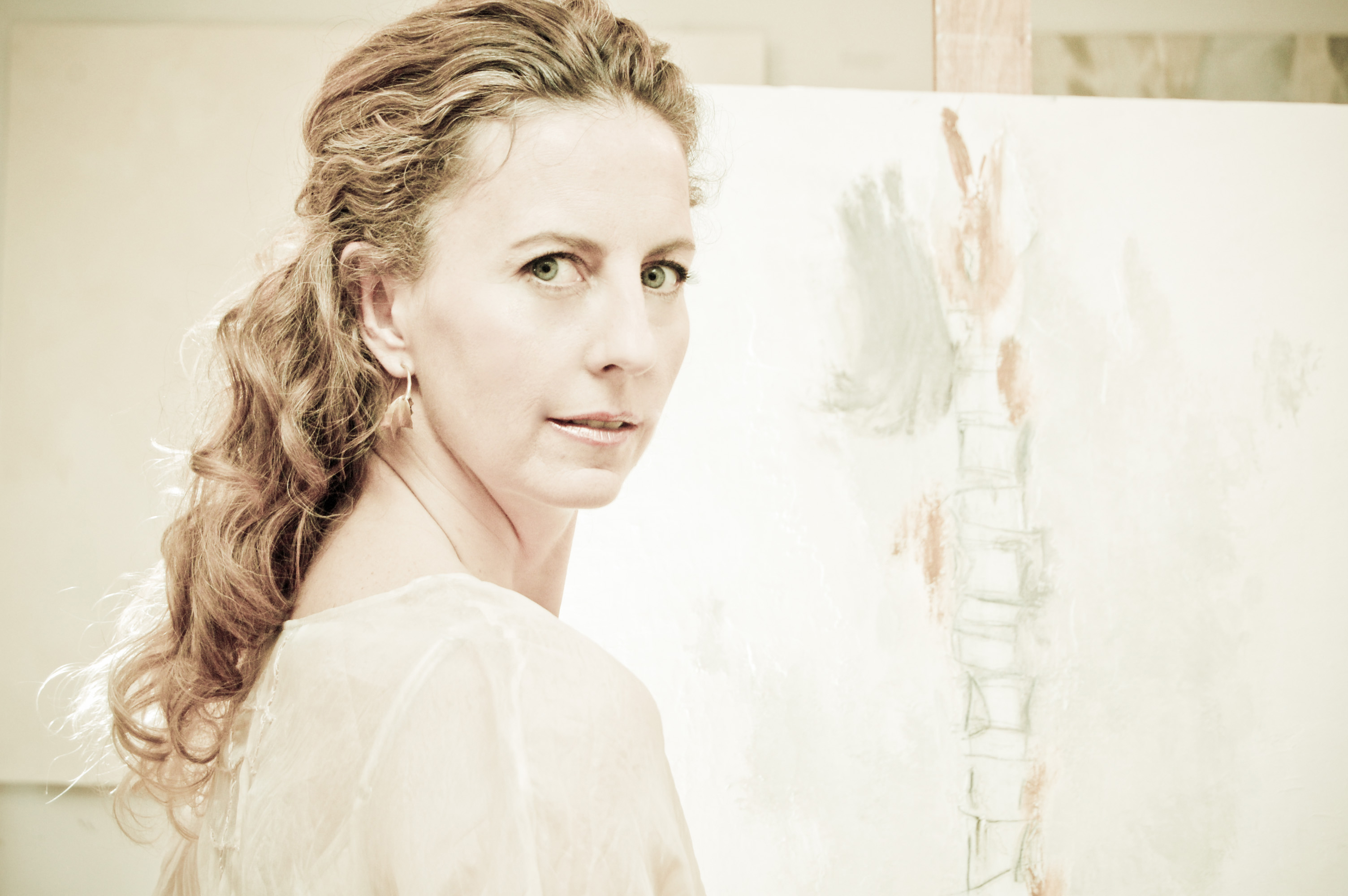 Photograph of Sandra Pani